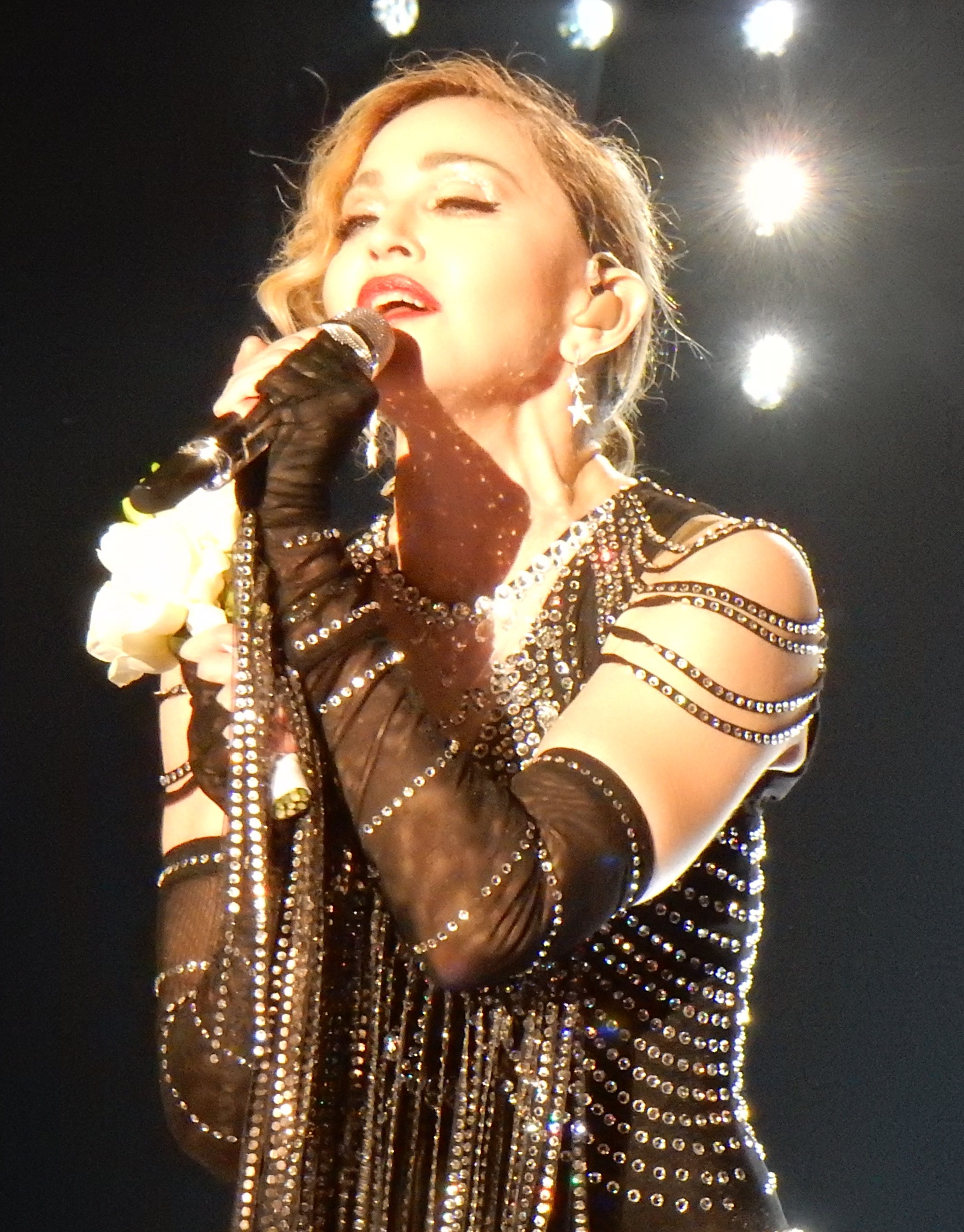 Madonna - Rebel Heart tour 2015 - Berlin 2